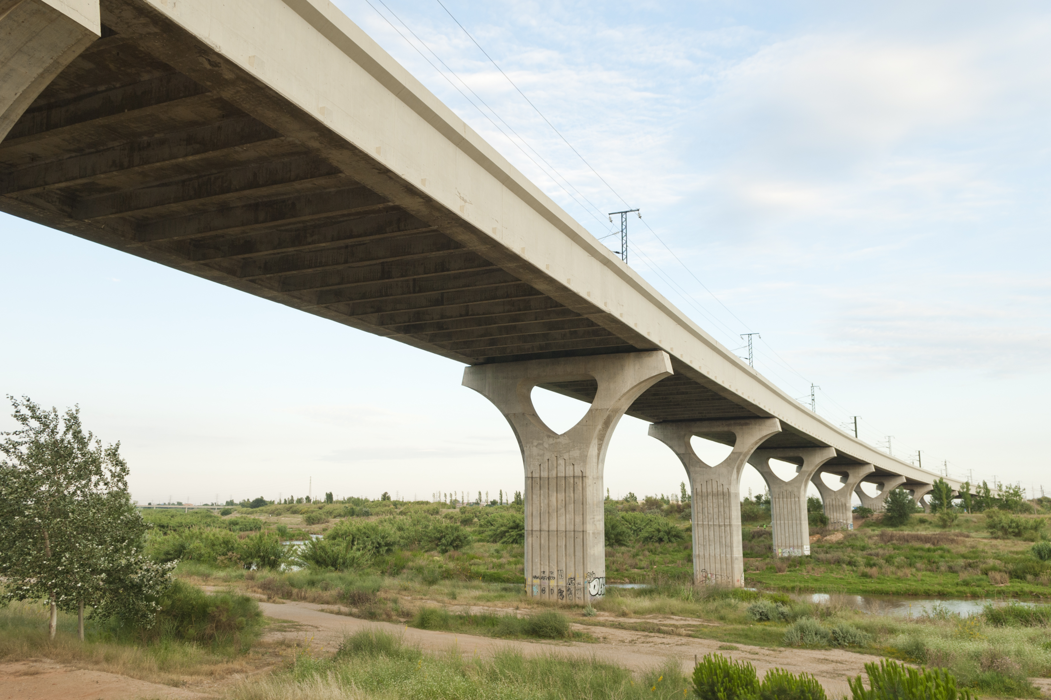 Image of Sant Boi de Llobregat bridge.